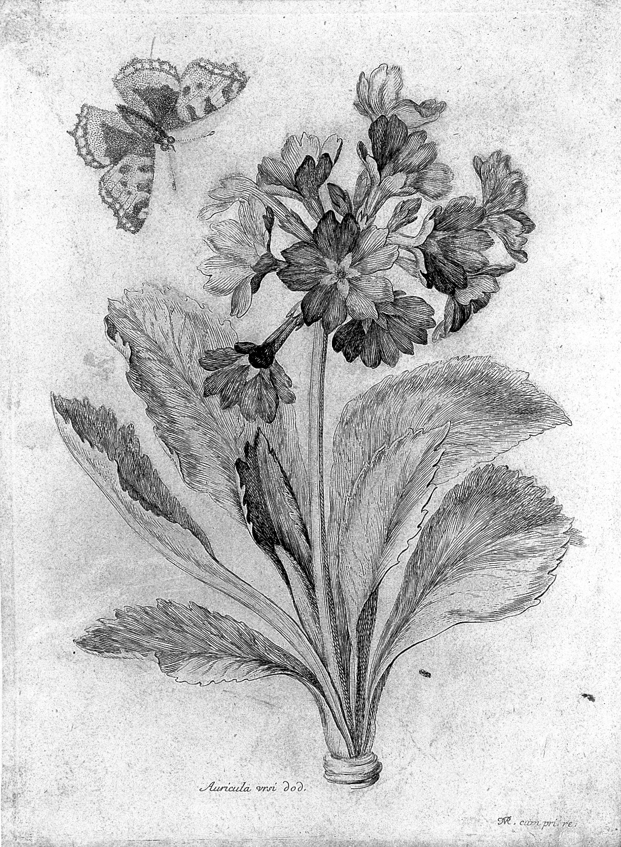 Flower Wellcome Images